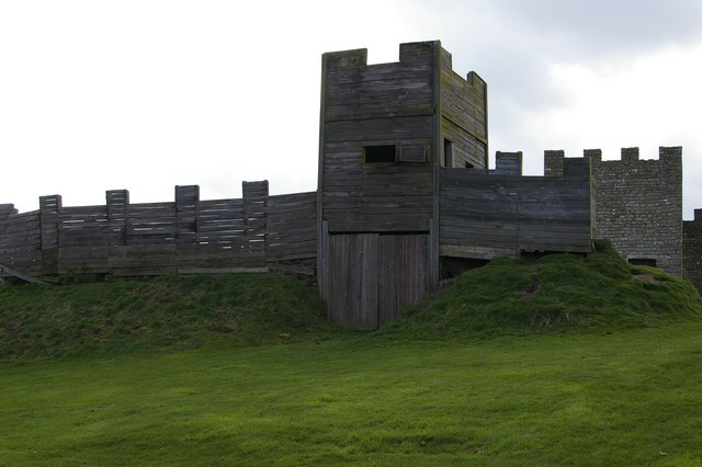 Reconstruction of Hadrian's wall The south west of the stone fort a Vindolanda are replicas of sections of Hadrian's wall. This is a reconstruction of the turf wall with a timber milecastle and gateway. Constructed in the 1970s, it has suffered from subsidence and undermining by rabbits. Part of a reconstruction of the stone wall can be seen on the right.